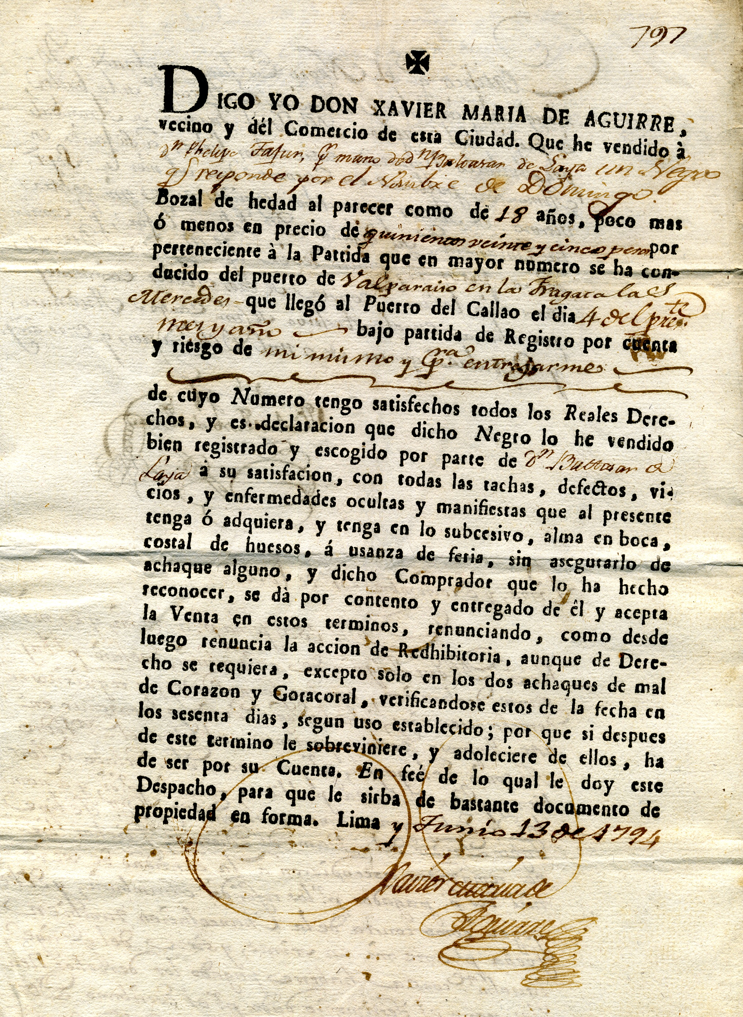 Slave contract for a 18 year old male slave, Lima, Peru, 13 October 1794.